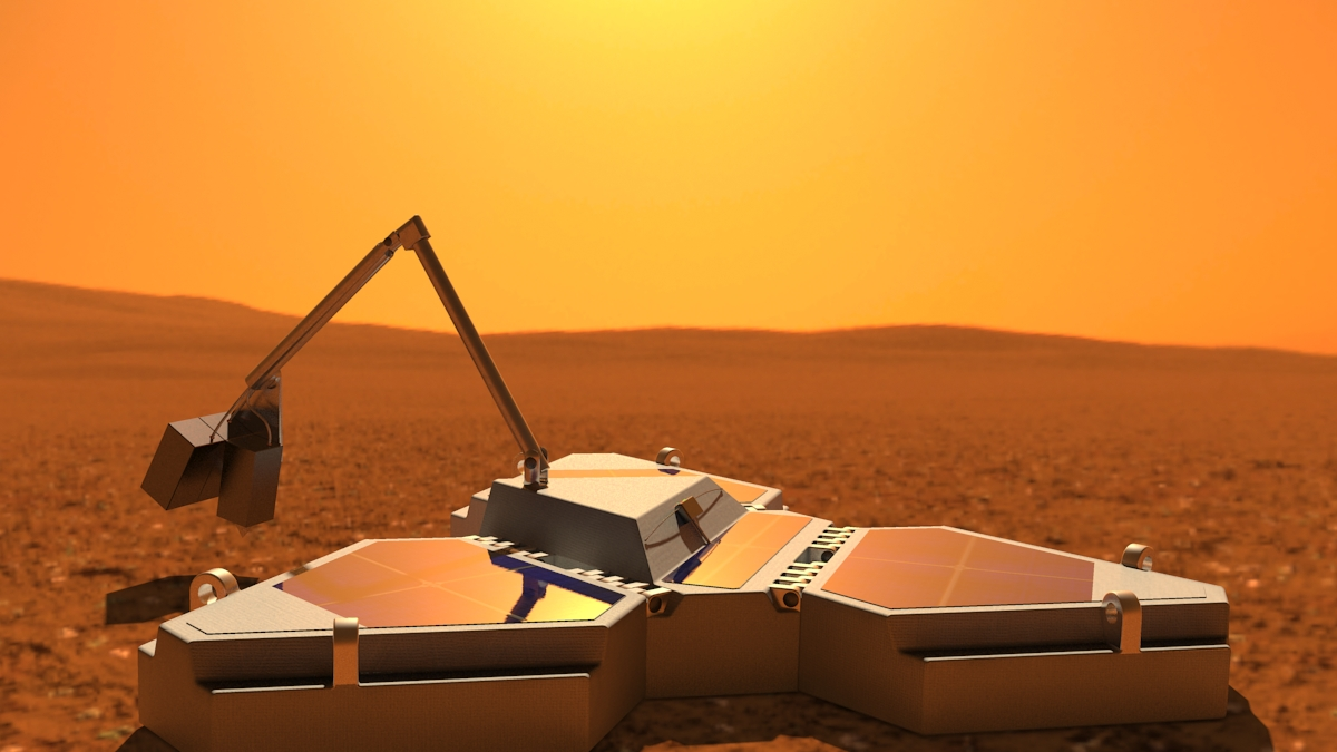 Artists impression of Canadian Northern Light Lander on the surface of mars with robotic arm deployed to search for evidence of photosynthetic life.